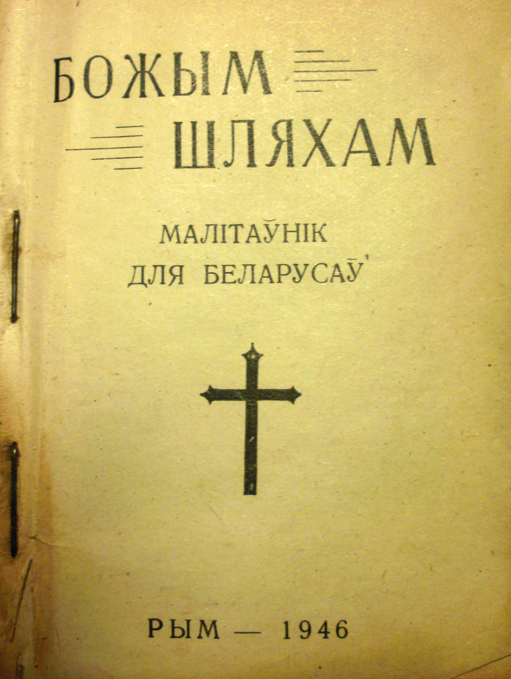 Player book in Belasrusian published in 1946 in Rome by Leo Garoshka